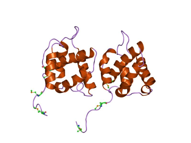 Cartoon representation of the molecular structure of protein registered with 1hek code.